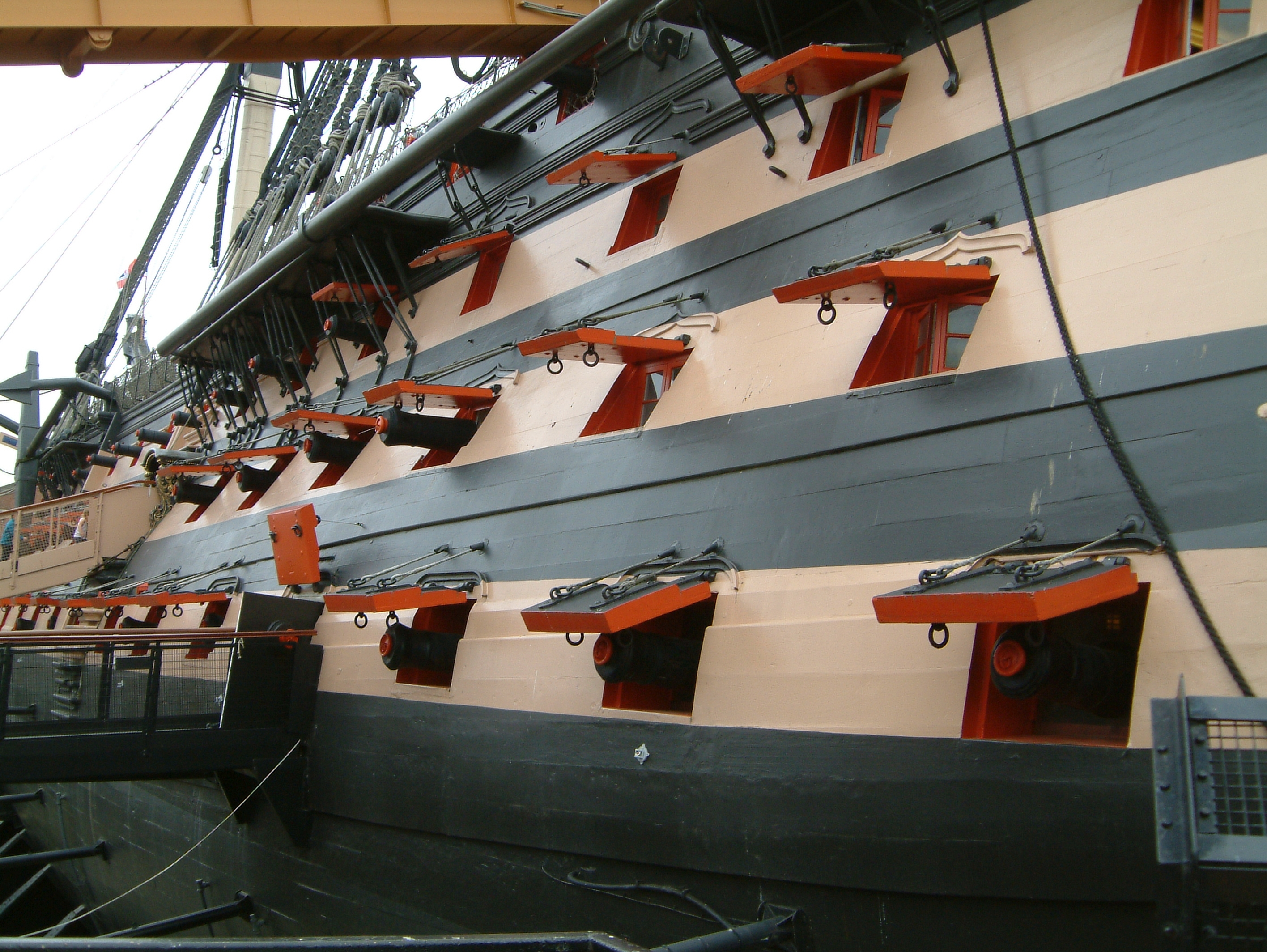 HMS Victory - Gun Ports, Port Side